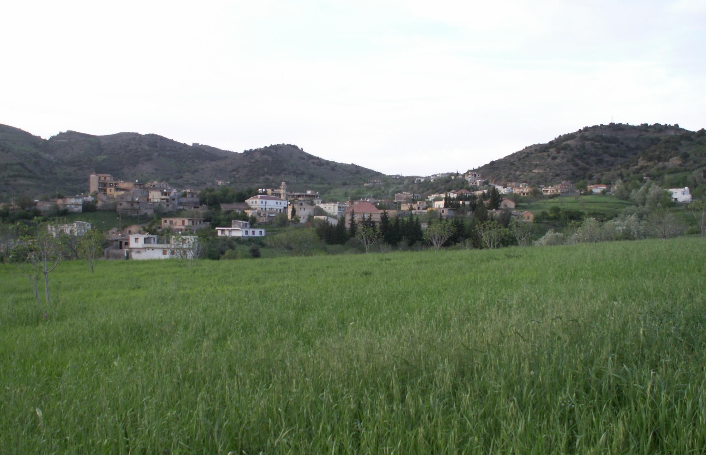 A small Algerian village called Tiwal in Kabylie region.